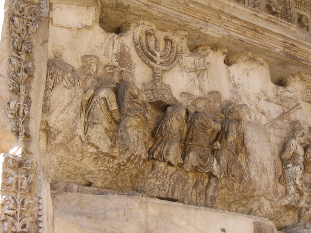 menora on Titus Arch (Rome)